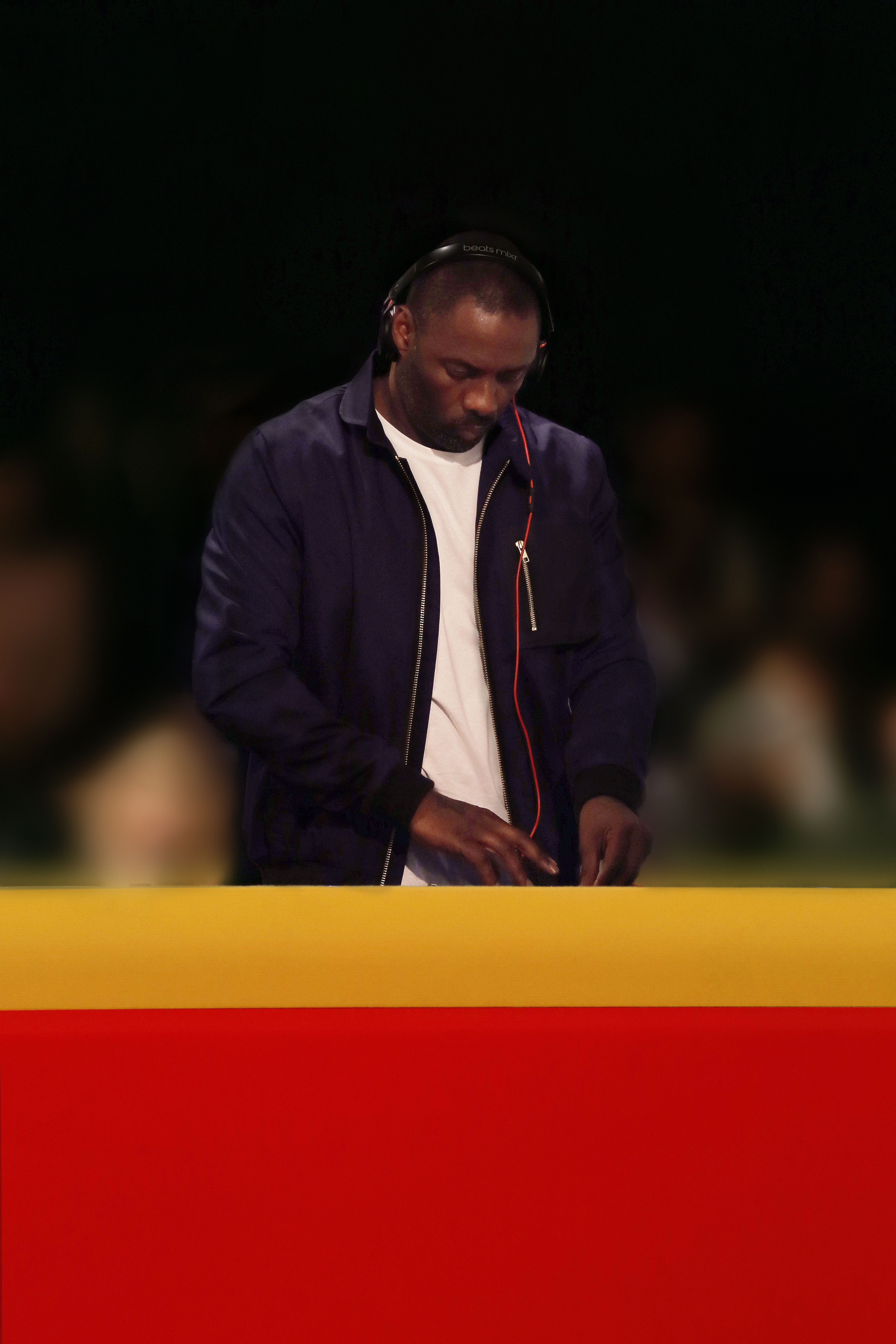 Photo by Walterlan Papetti